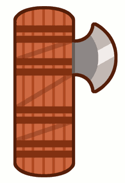 Stylized bundle of sticks with an axe attached, to represent fascism.